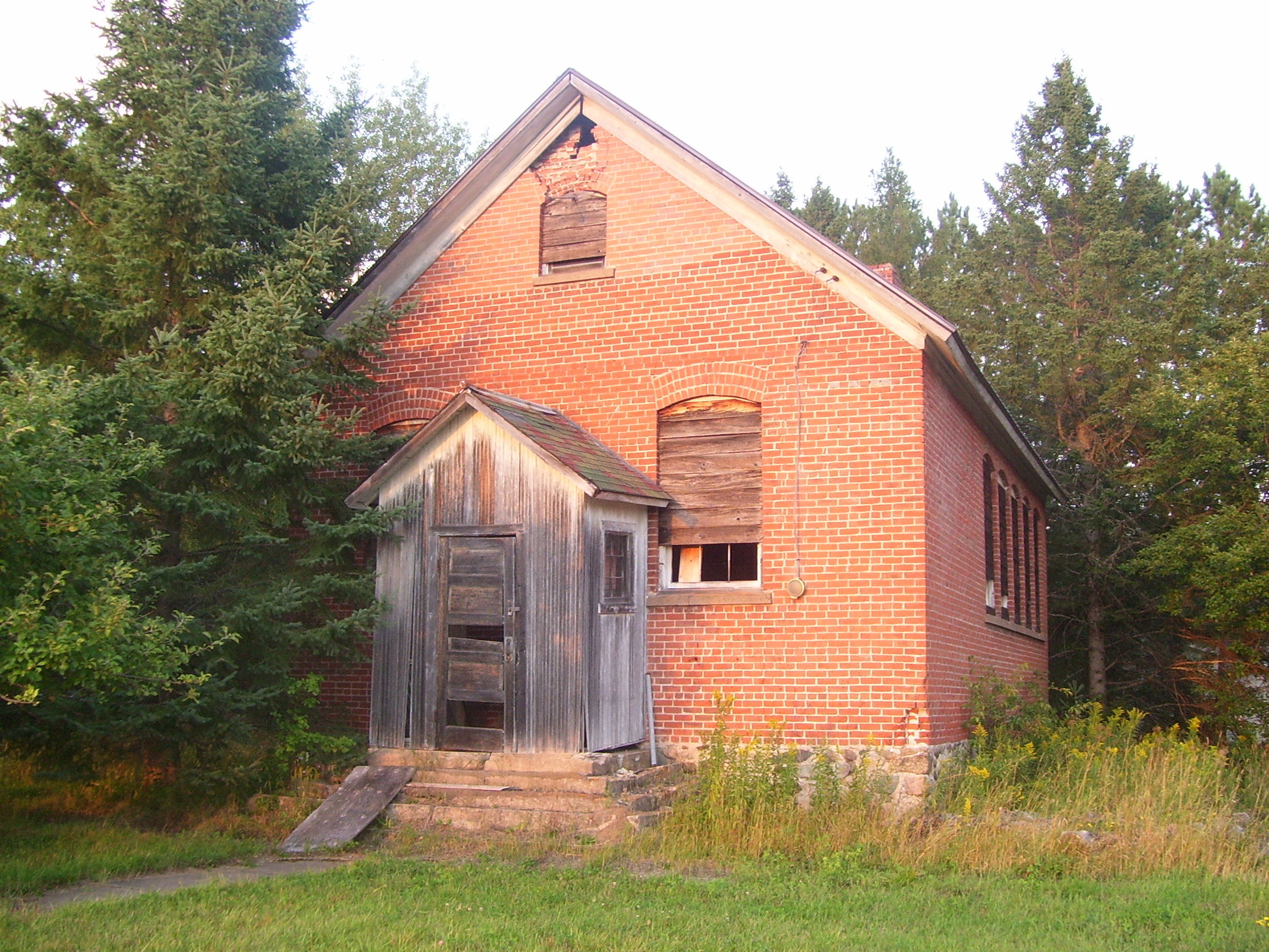 Photo of the Agenda schoolhouse in northern Price County, Wisconsin.